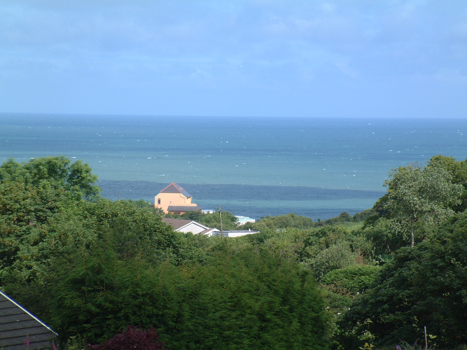 View of the sea from Tresaith in Wales.